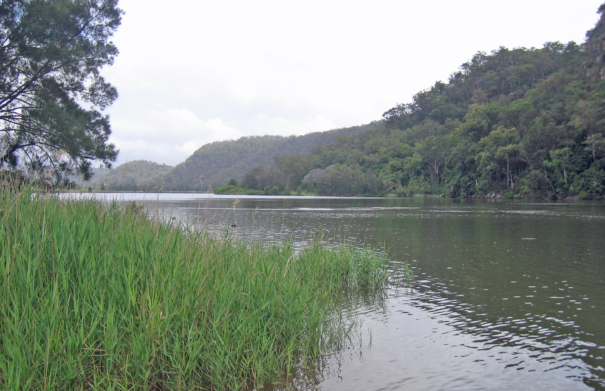 Hawkesbury River at Wisman's Ferry to the Settlers Road bank. I think this is the setting for Keens Crossing in Malouf's "The Great World". My GG Grandparent's settled in this area in the 1820's, courtesy of 'free' transport by His Majesty's government: Manslaughter and pick pocketing #2-3224